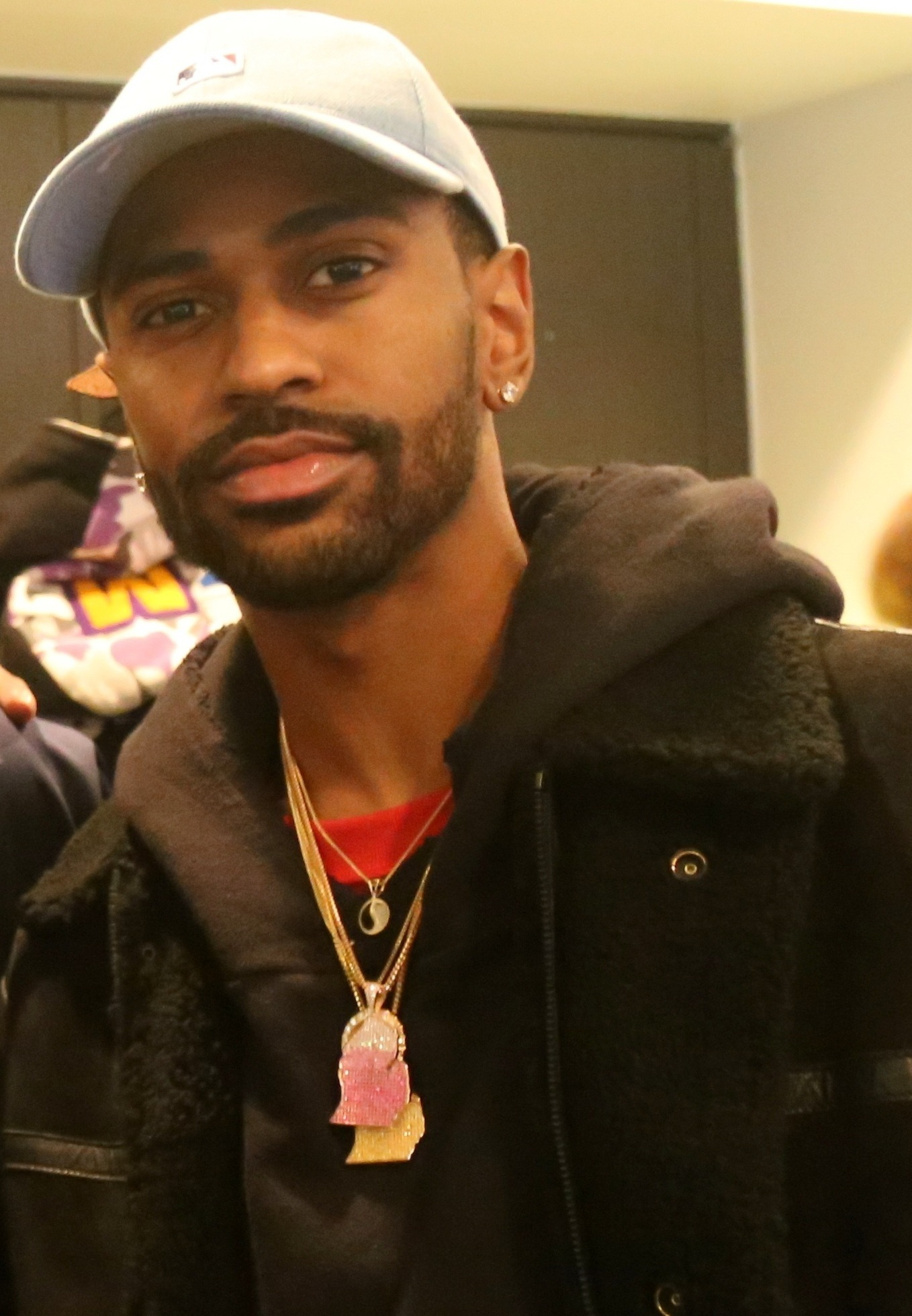 Big Sean at Game 5 of the 2016 World Series